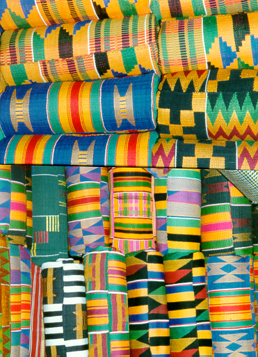 Kente weaving is a traditional craft among the Ashanti people of Ghana. A kente cloths is sewn together from many narrow (about 10 centimetres (3.9 in) wide) kente stripes. This image shows different patterns of typical Ashanti Kente stripes.